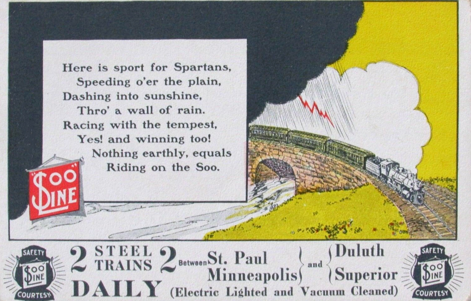 Postcard ad for the Soo Line's passenger trains between Duluth/Superior and St. Paul.